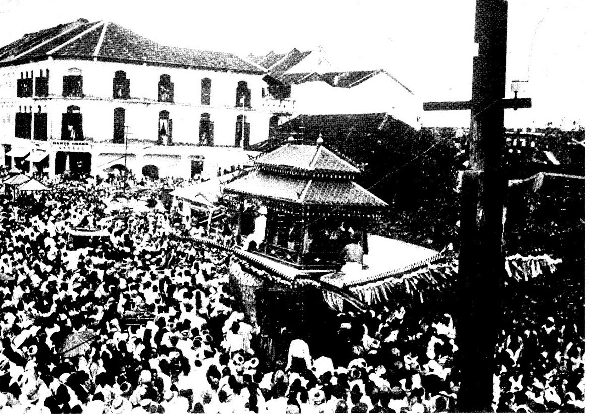 Burung Petala Indera of 1933